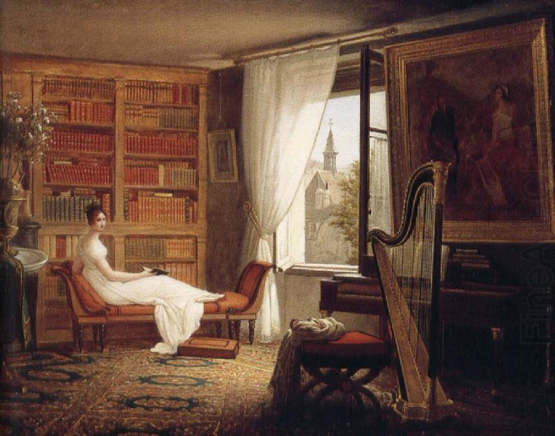 Room of Madame Recamier at the Abbaye aux Bois